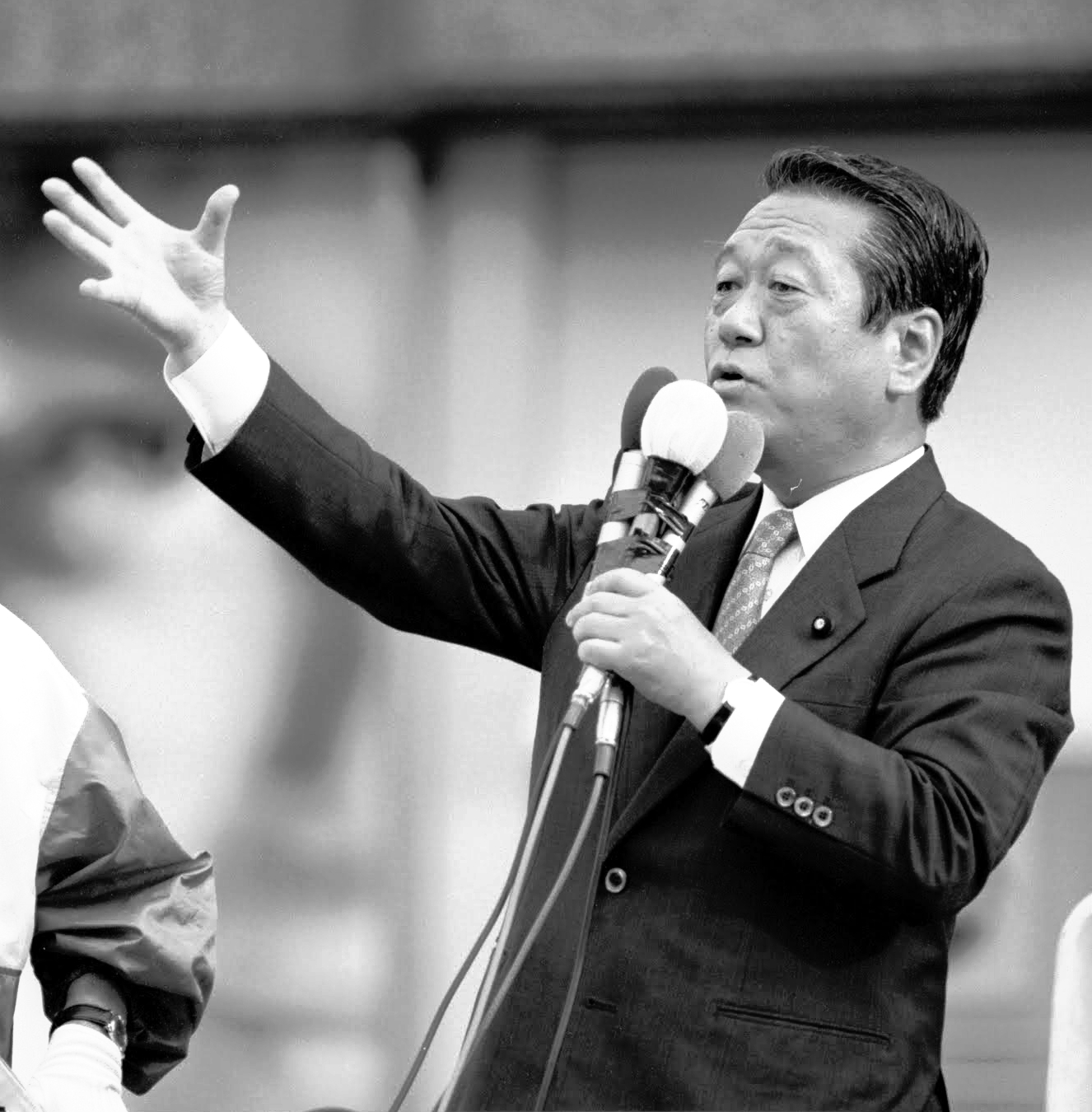 Ichirō Ozawa, President of the Liberal Party, made a campaign speech for Yoshitaka Kimoto, Candidate for Member of the House of Councillors, in Hokkaidō on July 18, 2001.